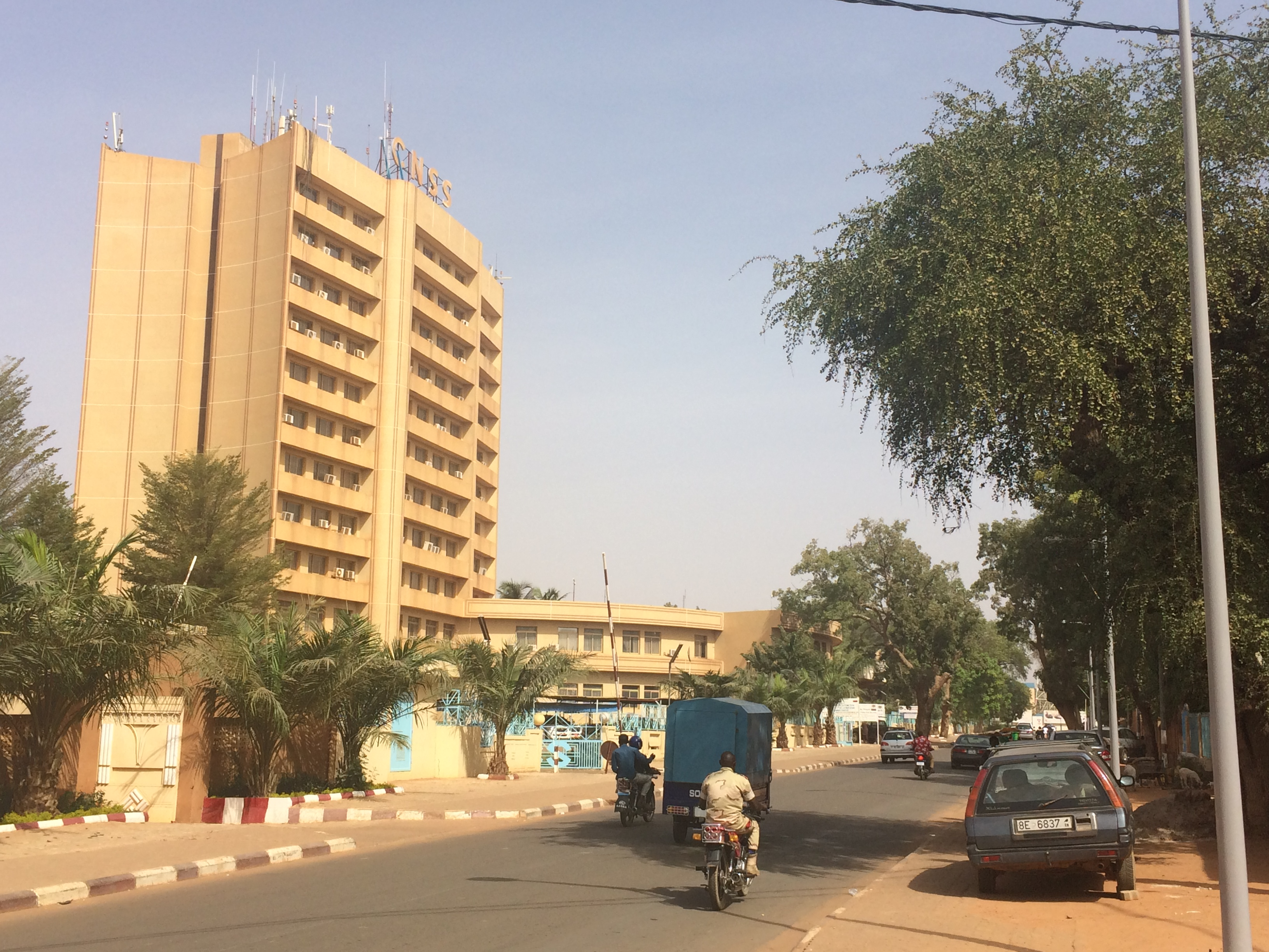 Rue du Souvenir (Rue NB-47), also known as "Avenue du Souvenir", in Niamey, Niger.